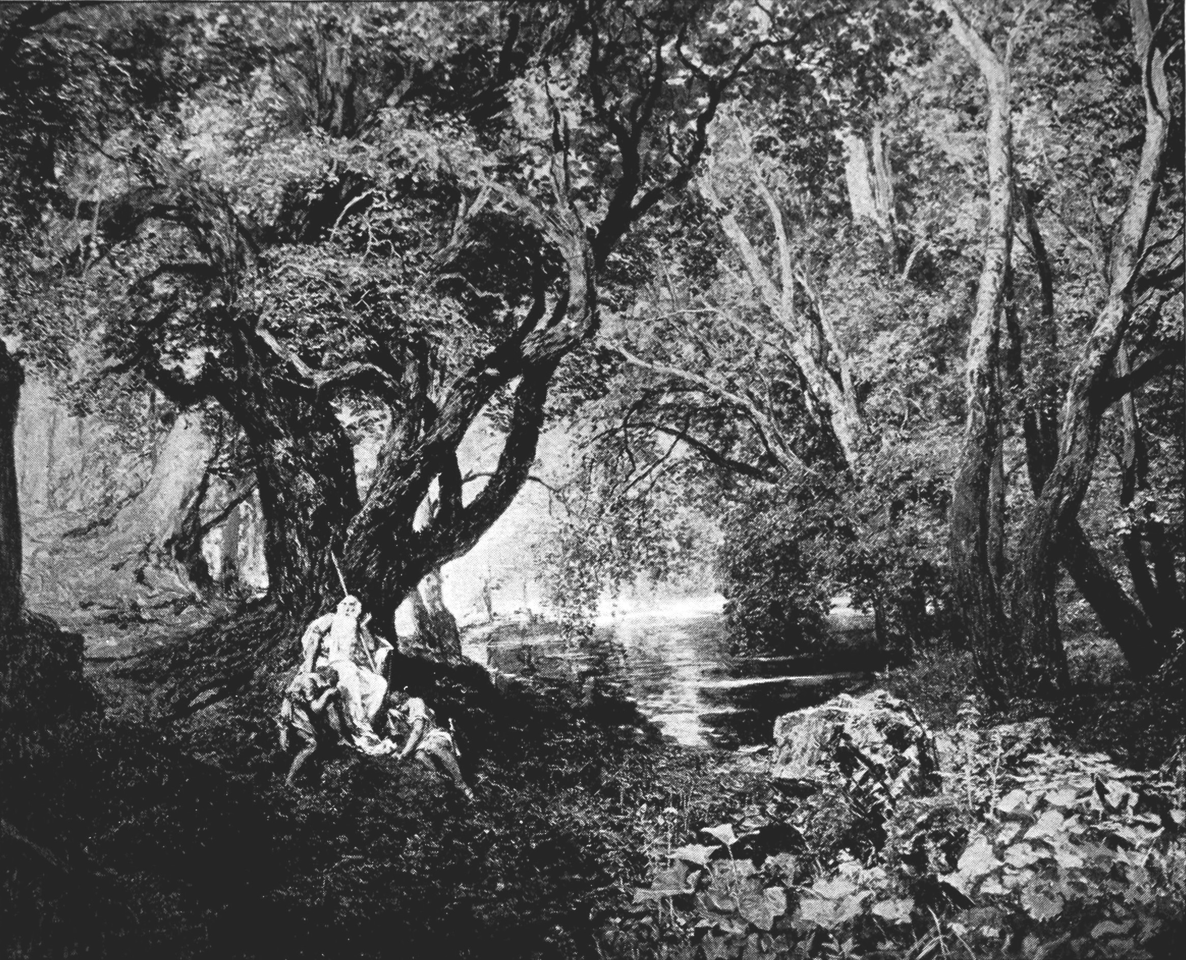 Wagner - Parsifal, act I - Gurnemanz and the novices - Pach Bros., N.Y. Title: The Victrola book of the opera : stories of one hundred and twenty operas with seven-hundred illustrations and descriptions of twelve-hundred Victor opera records Year: 1917 (1910s) Authors: Victor Talking Machine Company Rous, Samuel Holland Subjects: Operas Publisher: Camden, N.J. : Victor Talking Machine Co. Text Appearing Before Image: VICTROLA BOOK OF THE OPERA-WAGNERS PARSIFAL Text Appearing After Image: COPYT PACH BROS., H. GURNEMANZ AND THE NOVICES ACT I ACT I SCENE—A Forest Near MonsalvatThe rise of the curtain shows Gurnemanz, a veteran Knight, with two novices, asleep.Trumpet calls from the Castle awaken them, and they join in prayer, afterward preparingthe bath with which Amfortas seeks to heal his wound. Messengers from the Castle reportthat the latest balm which he had tried failed to bring relief. Gurnemanz is much grieved,and sinks down in dejection, until he is roused by the approach of Kundry, who comes inhurriedly, dressed in sombre garments and in her normal mind, but exhausted with fatigue.She brings a new remedy which she had sought in distant Arabia. When Amfortas arriveswith his train for a bath in the sacred lake, the new balm is offered to him. He accepts andthanks the strange-looking woman for her kindness. When the procession departs thenovices attack Kundry, calling her a sorceress, but she is defended by Gurnemanz, who saysshe is devoted to the King but is su